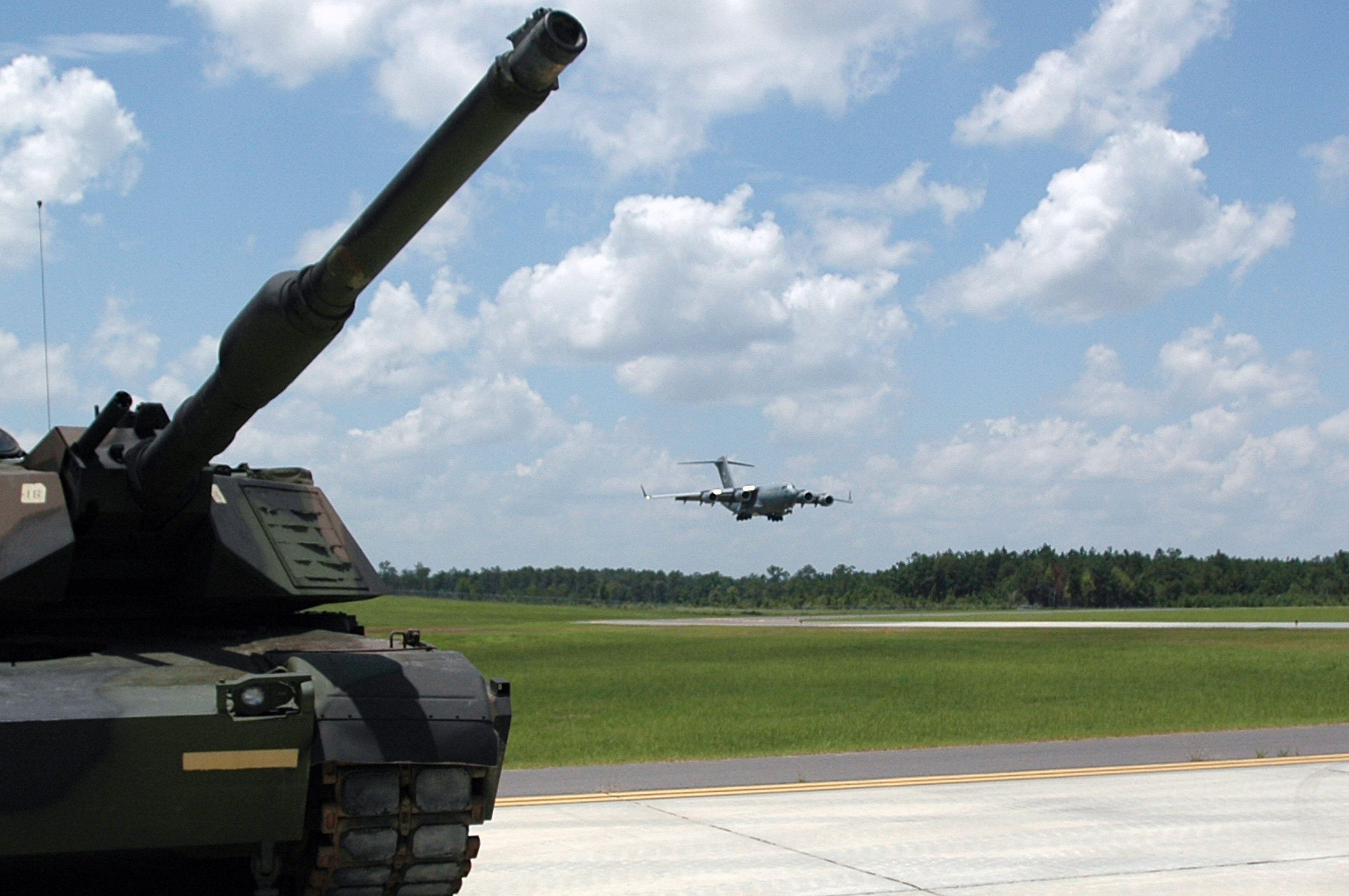 Shelby Auxiliary Field 1 at Camp Shelby, Mississippi, United States Air Guard opens new combat training runway: A C-17 Globemaster III from the Mississippi Air National Guard's 172nd Airlift Wing lands at the new assault training runway at Camp Shelby, Mississippi, July 9, 2007. The 210-acre Shelby Aux Field is one of only two facilities in the world designed for C-17 short-field landing operations. It was constructed to meet Air Force C-17 training requirements. [1]